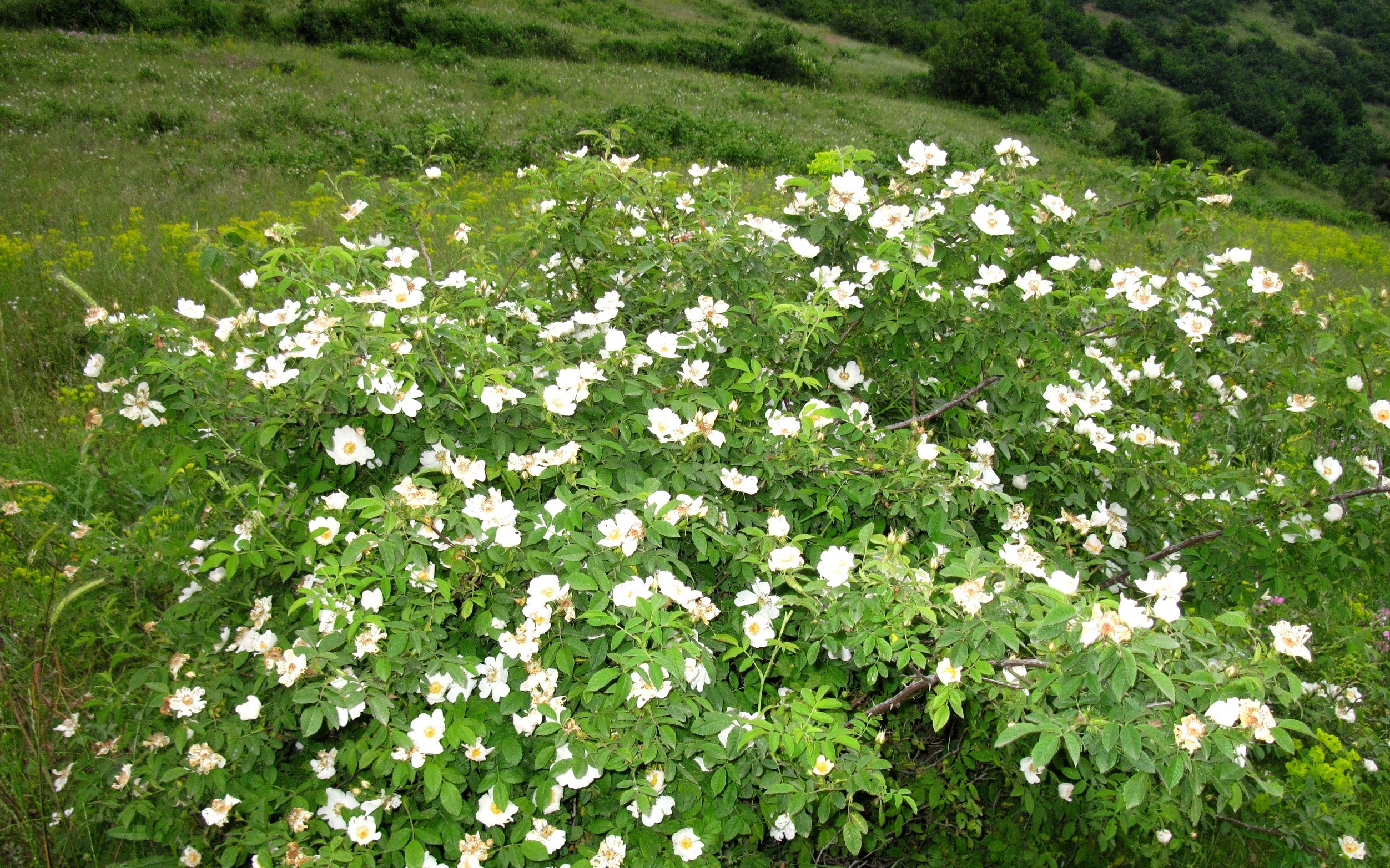 This photo of Rosa canina plant was taken in Arasbaran region.